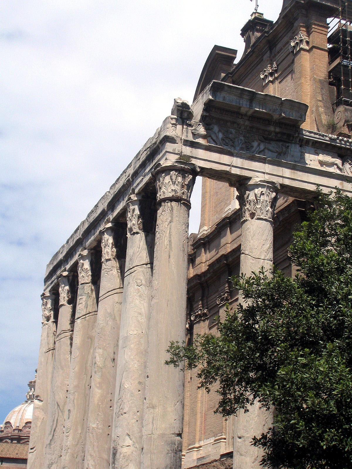 The colonnade of green and white "cipollino" marble from Karystos (Euboea) in Greece used to enclose the temple to the Deified Antoninus Pius and his wife Faustina, but the temple has been replaced by the church of S. Lorenzo in Miranda.